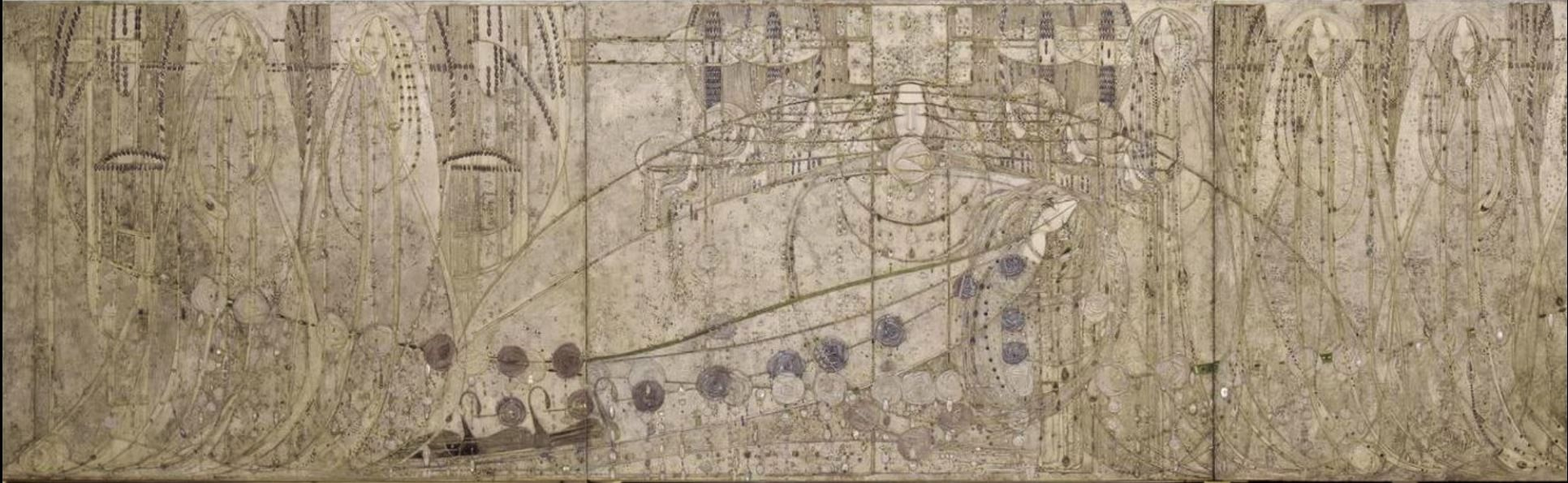 The Seven Princesses, a triptych of gesso panels by Margaret Macdonald Mackintosh. They display a scene from the fairy tale play by Maurice Maeterlinck. The triptych was created as the centerpiece of the Viennese music room of Fritz Waerndorfer, in 1907. As of 2000, it is on permanent display at the Austrian MAK in Vienna.